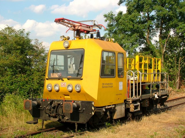 Catenary works car GAF100R/H in Unna